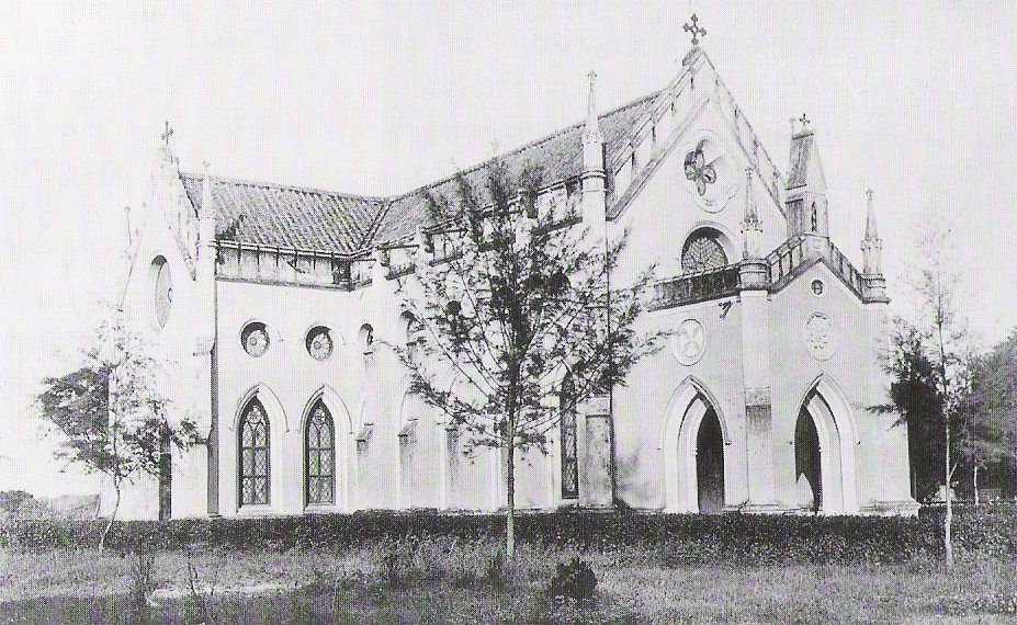 St.Joseph's Cathedral that was demolished in1967 to make way for the present Cathedral.